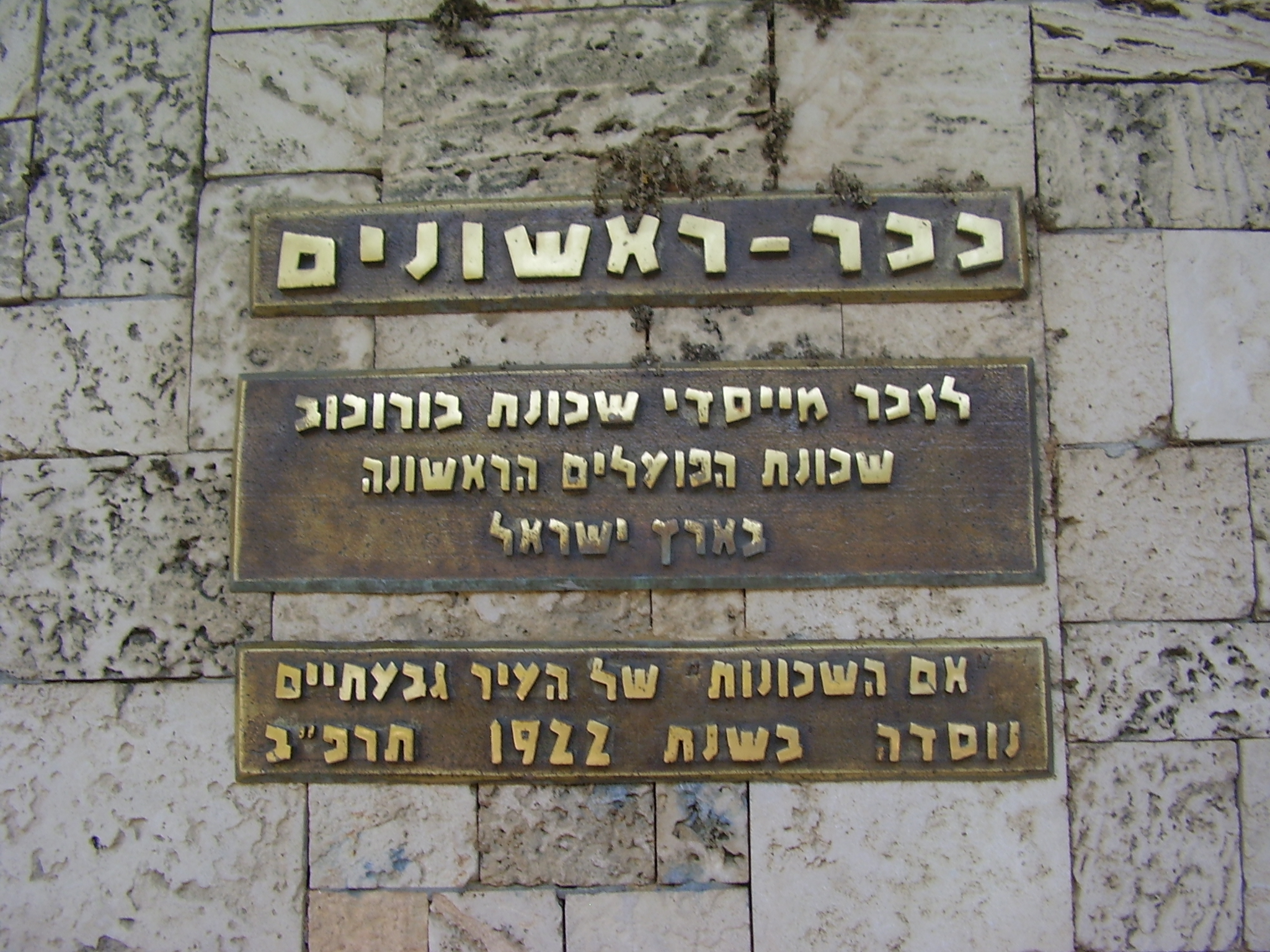 Founders garden in Givataym, Israel